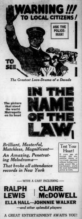 Newspaper advertisement for the American film In the Name of the Law (1922), on page 13 of the September 15, 1922 Duluth Herald.